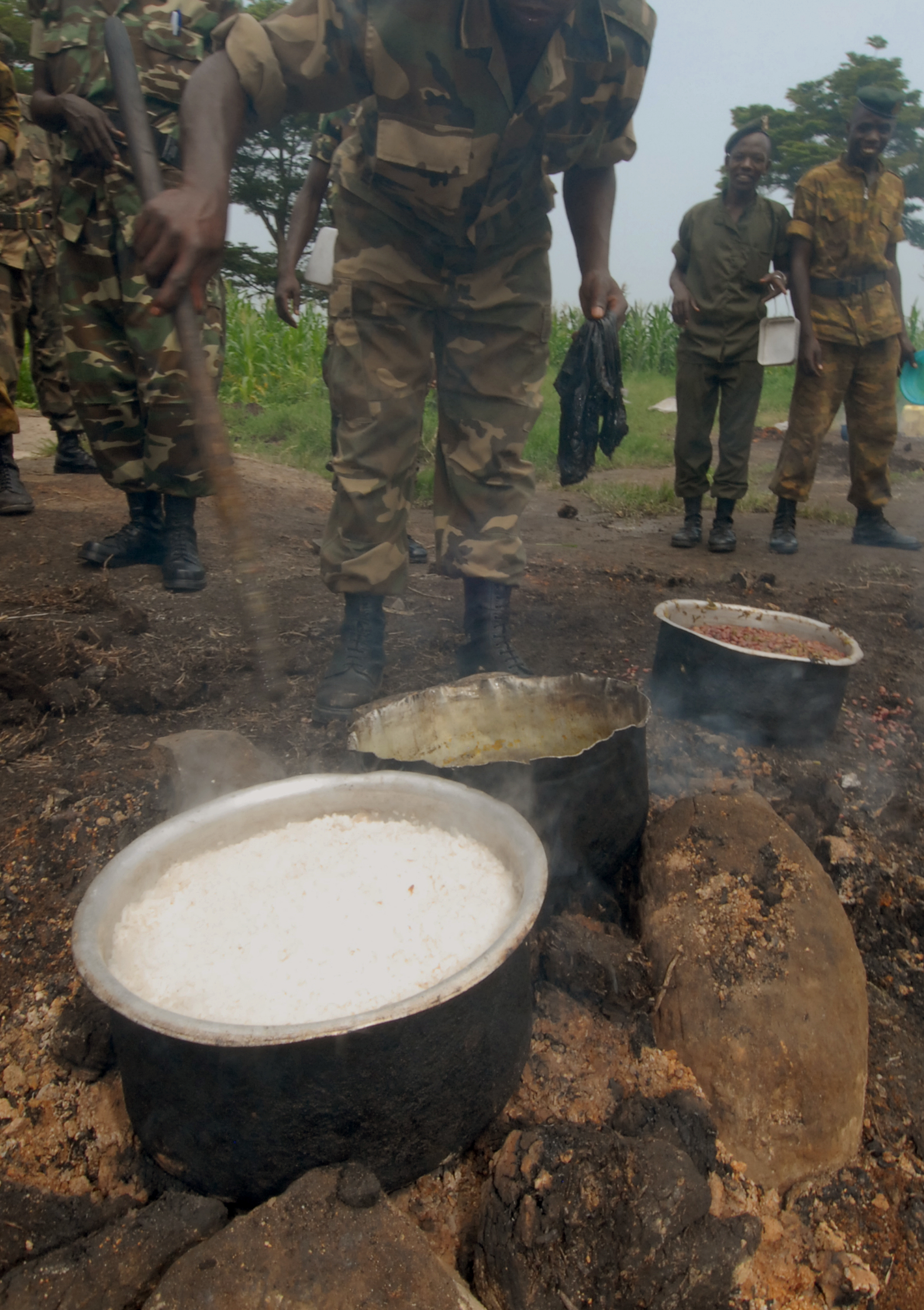 NOTE: soldiers are using three "sufuria" the common Swahili cooking pots, now mass produced. Burundi peacekeepers prepare for next rotation to Somalia By Rick Scavetta, U.S. Army Africa